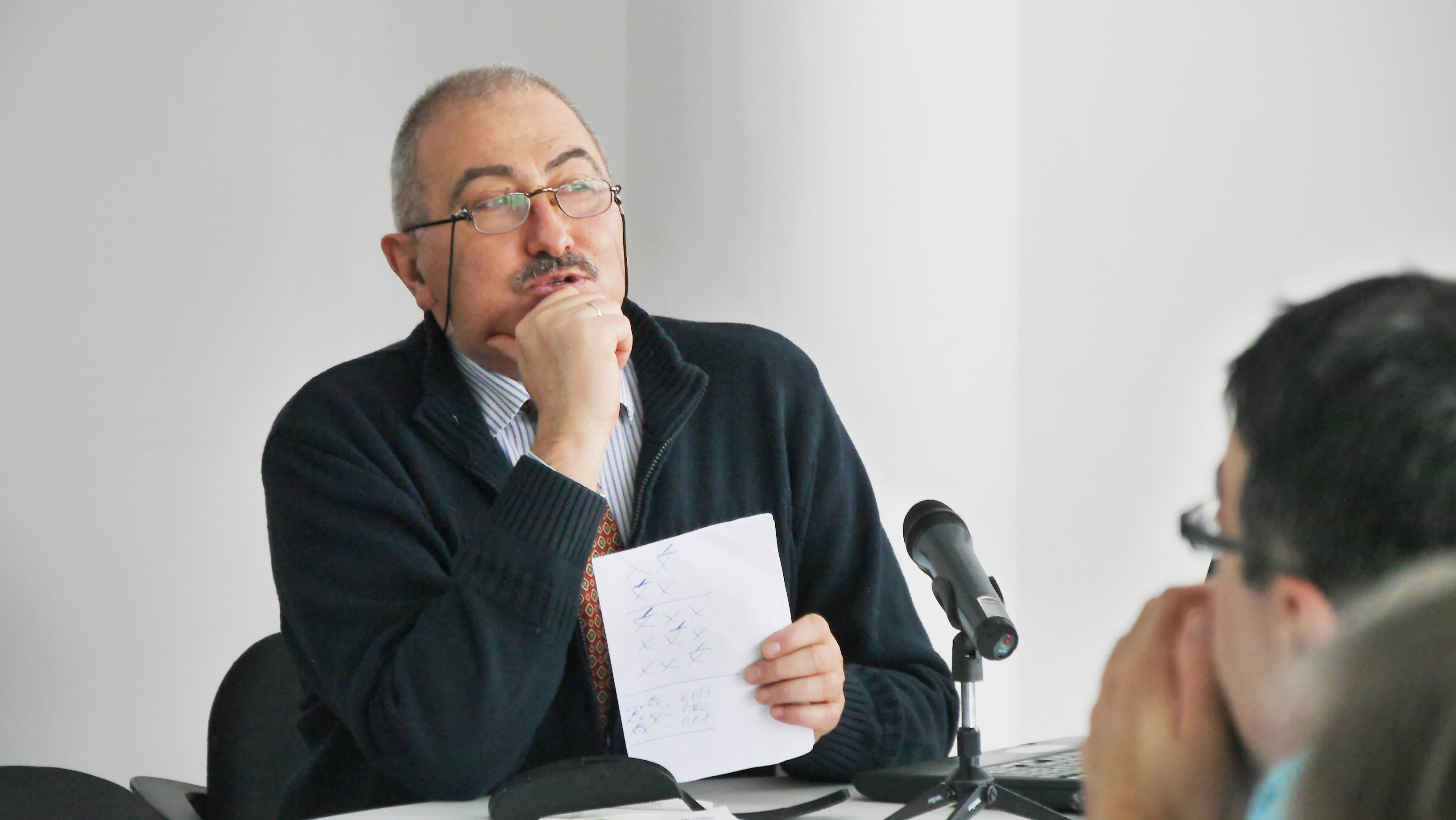 Prof. Iani Milchakov at the VI Atanas Slavov's Readings in the New Bulgarian University, January 18, 2016